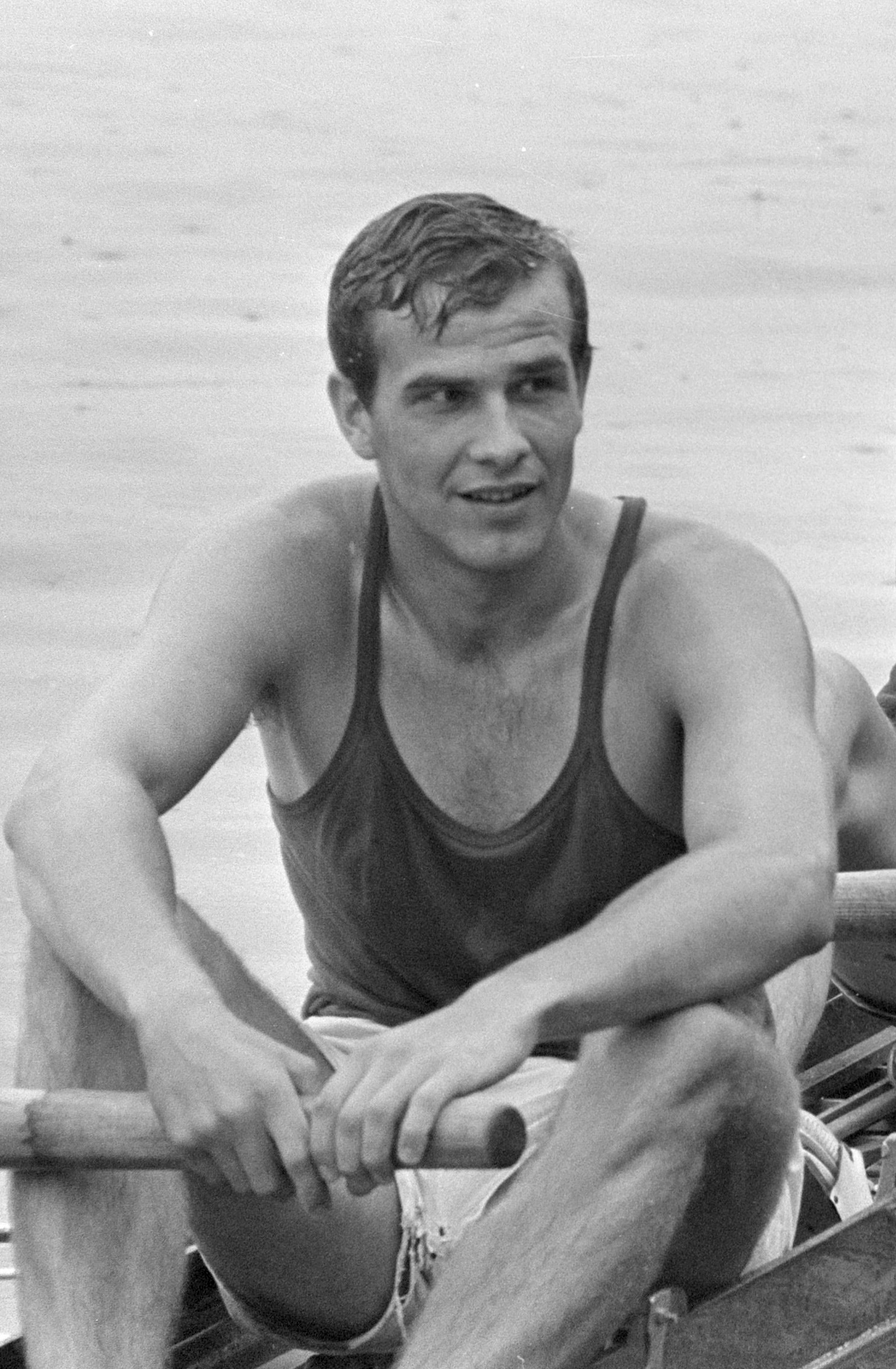 Nationale roeikampioenschappen op Bosbaan Laga won de Twee met stuurman ; Grothuis